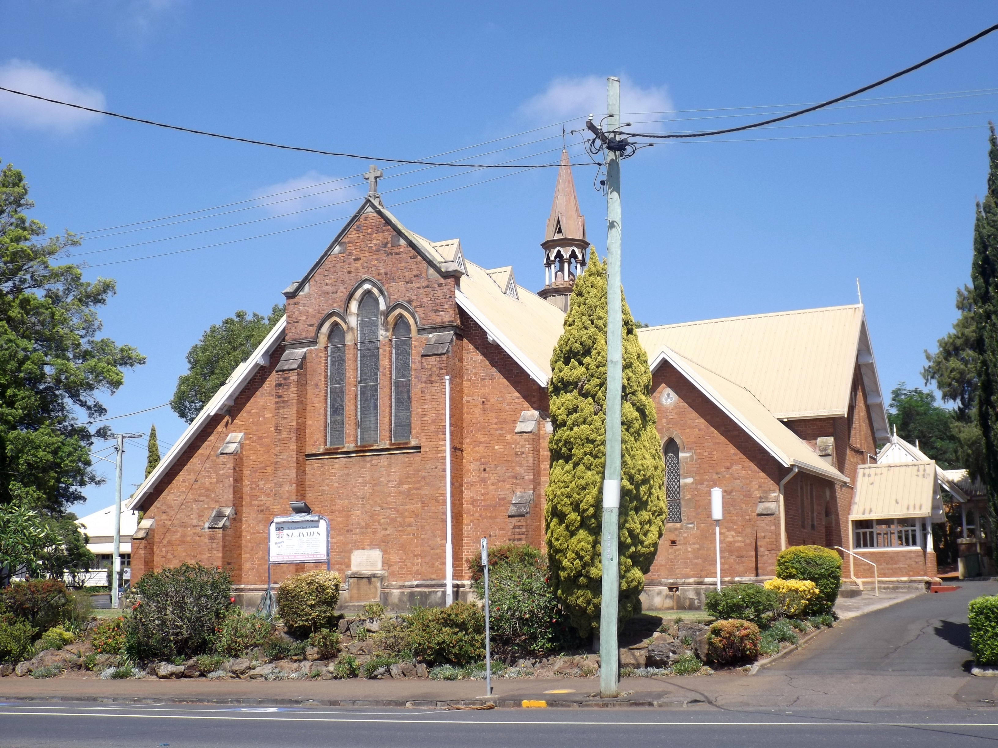 Photo of St James Church as seen from Mort Street in Toowoomba, Queensland, Australia.